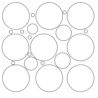 A polydisperse system. It is more compact than a monodisperse system.